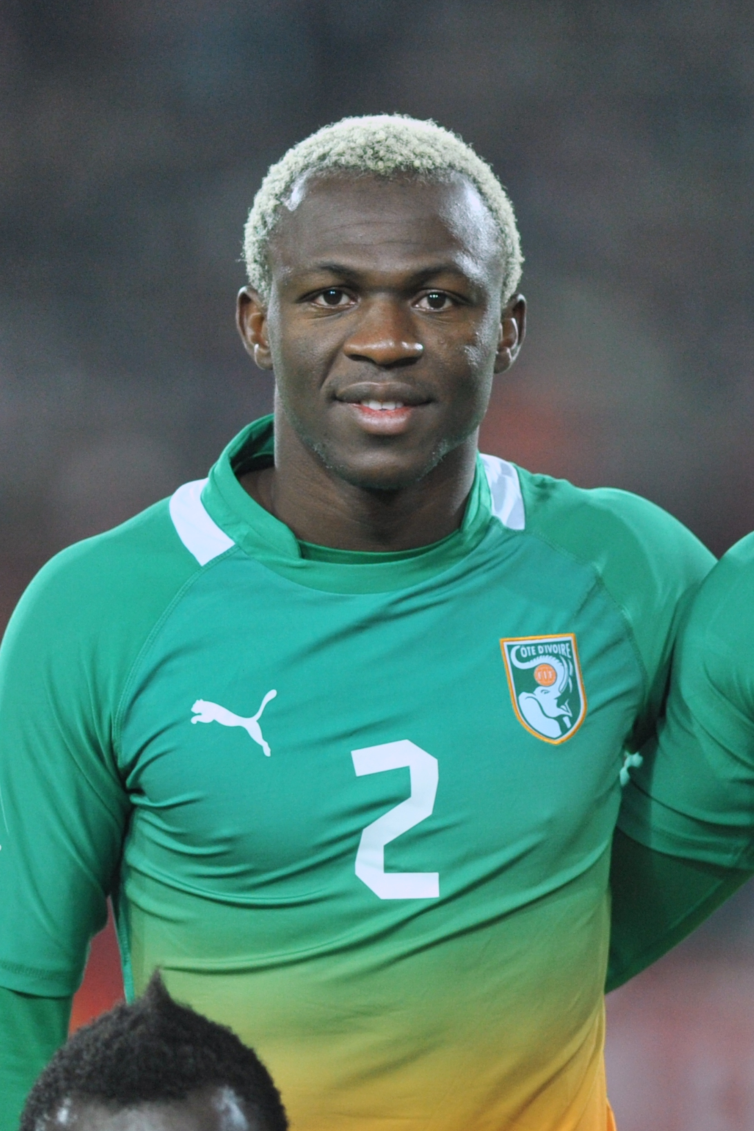 ÖFB freundschaftliches Länderspiel - Österreich vs Elfenbeinküste am 14. November 2012 The making of this work was supported by Wikimedia Austria. For other files made with the support of Wikimedia Austria, please see the category Supported by Wikimedia Österreich. Elfenbeinküste Nr. 2: Arouna Koné